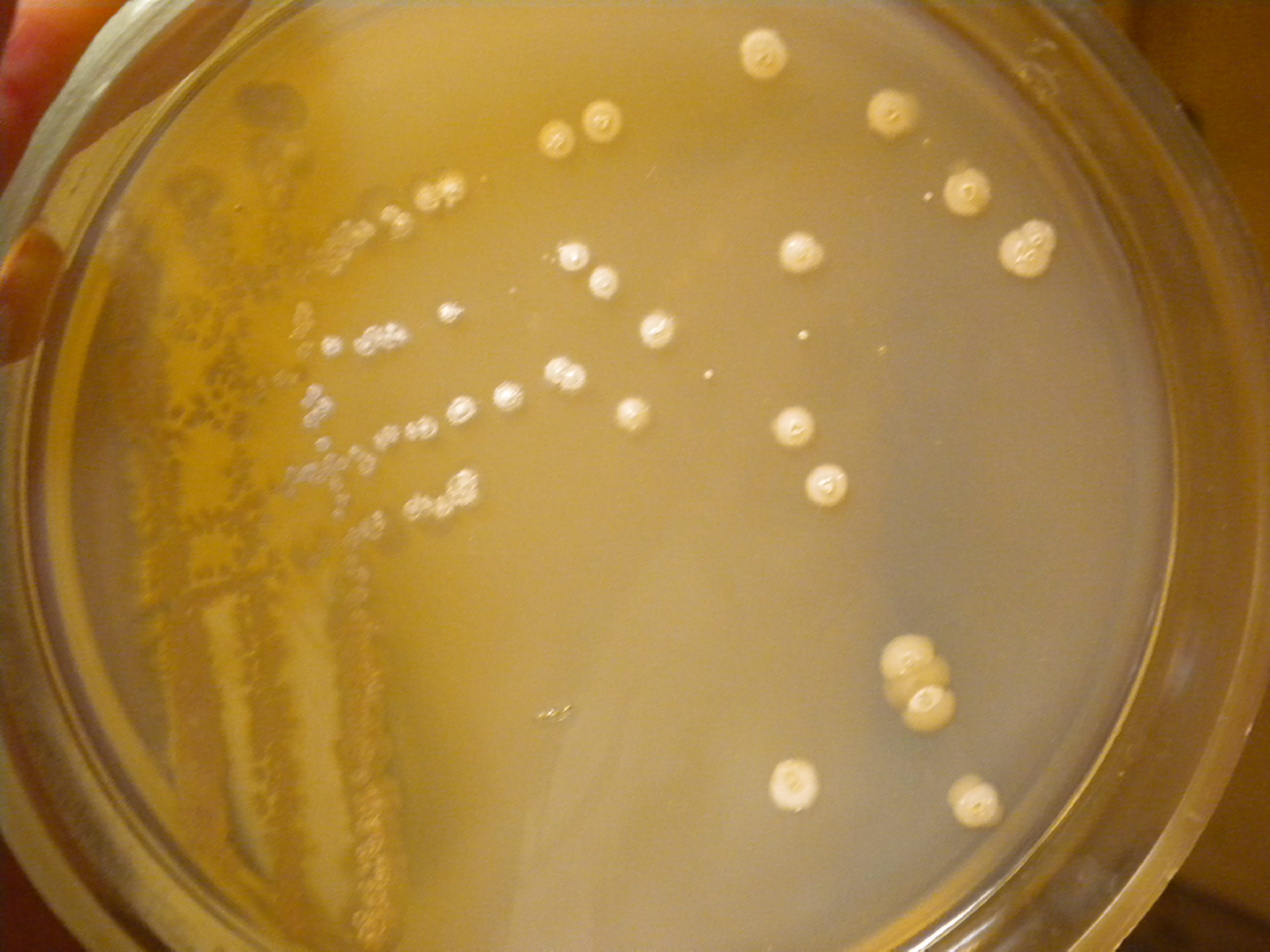 Colonies of actinomycete Streptomyces gardneri strain ChNPU F3 (in the GenBank database at KX349221), isolated from soil ferrosphere (Chernihiv, Ukraine), when cultured on oatmeal agar (10 hours, temperature 29 ° C). Colonies have a velvety appearance; aerial mycelium is white and weakly expressed. Shape rounded colonies with roller, profile crateriform.